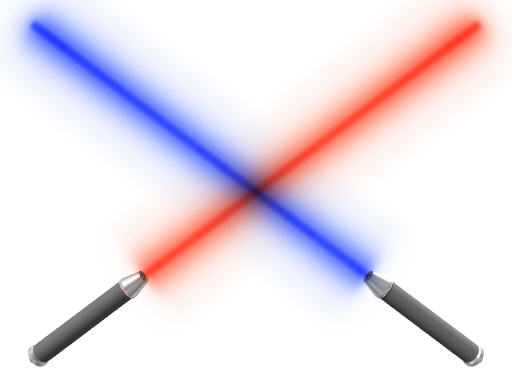 Drawing of a red and a blue lightsaber fighting. Can be used as an icon.